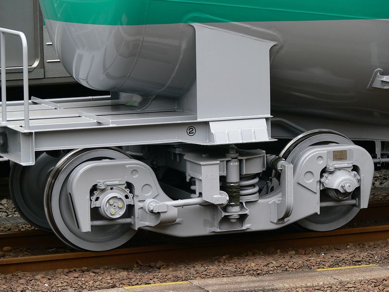 Japan Freight railway Truck series"FT21"